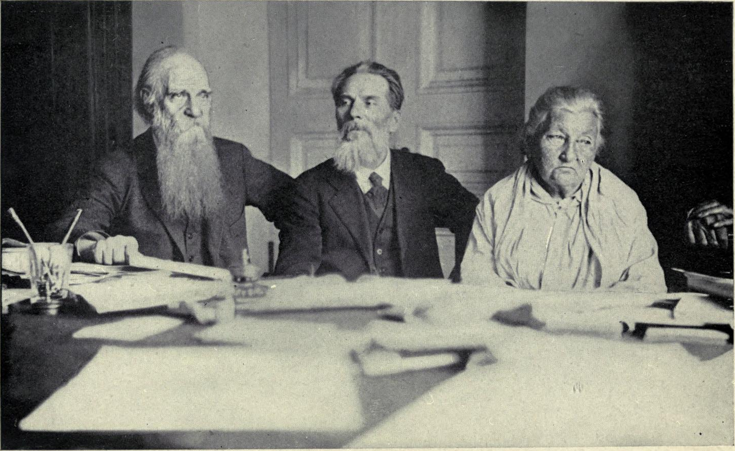 Veterans of the Russian Revolution: Tchaikovsky, Lazarev and Breshvko-Breshkovskaya.